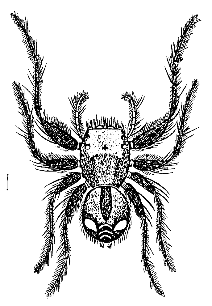 Servaea vestita male from L. Koch, 1879. Specimen from Australia.